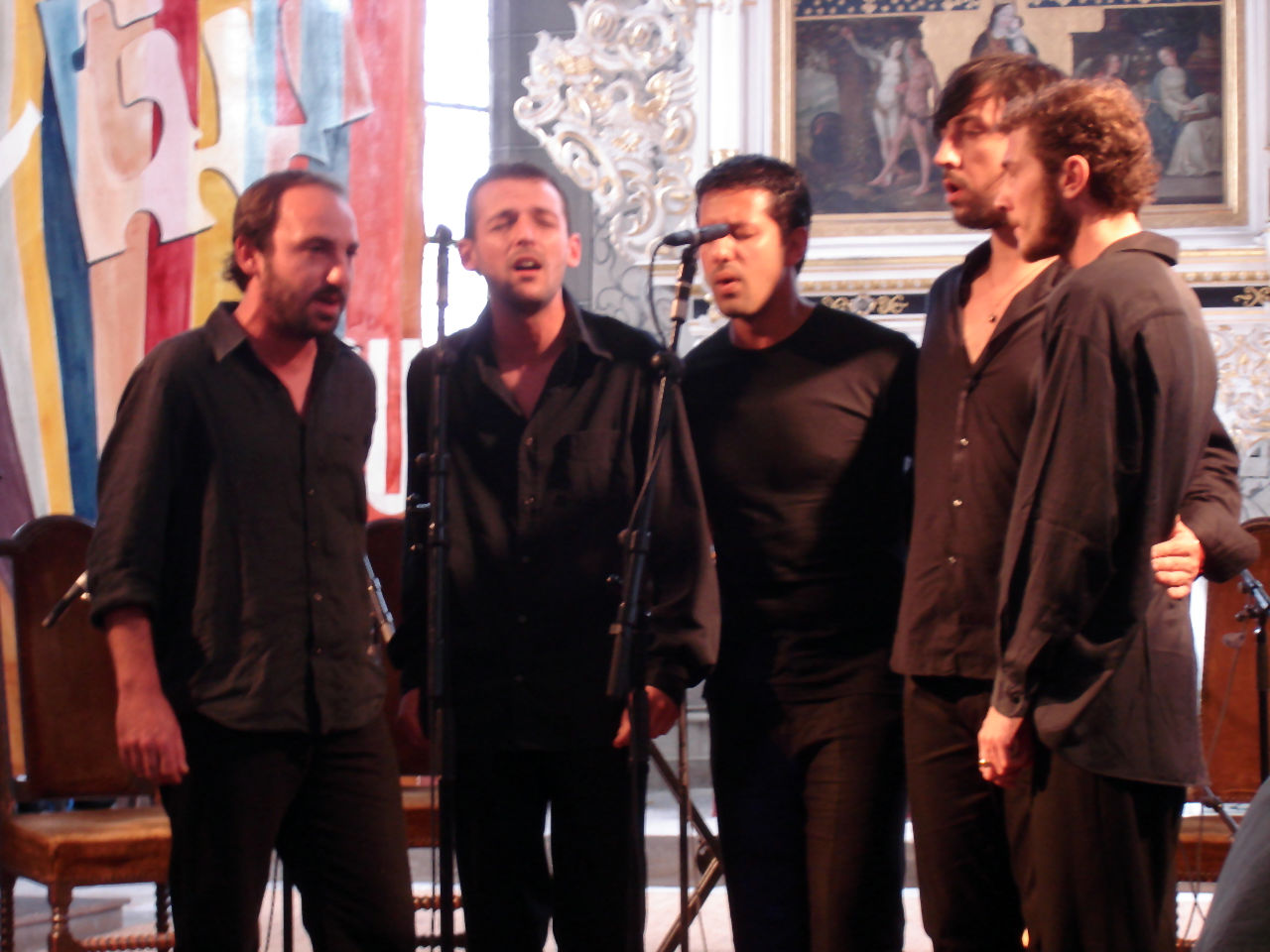 The Corsican folk music group L´Alba sing traditional Corsican polyphonic music in their native Corsican language. Concert on tff-festival in Rudolstadt.